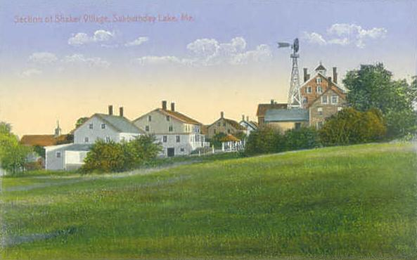 Section of Shaker Village, Sabbathday Lake, Maine.